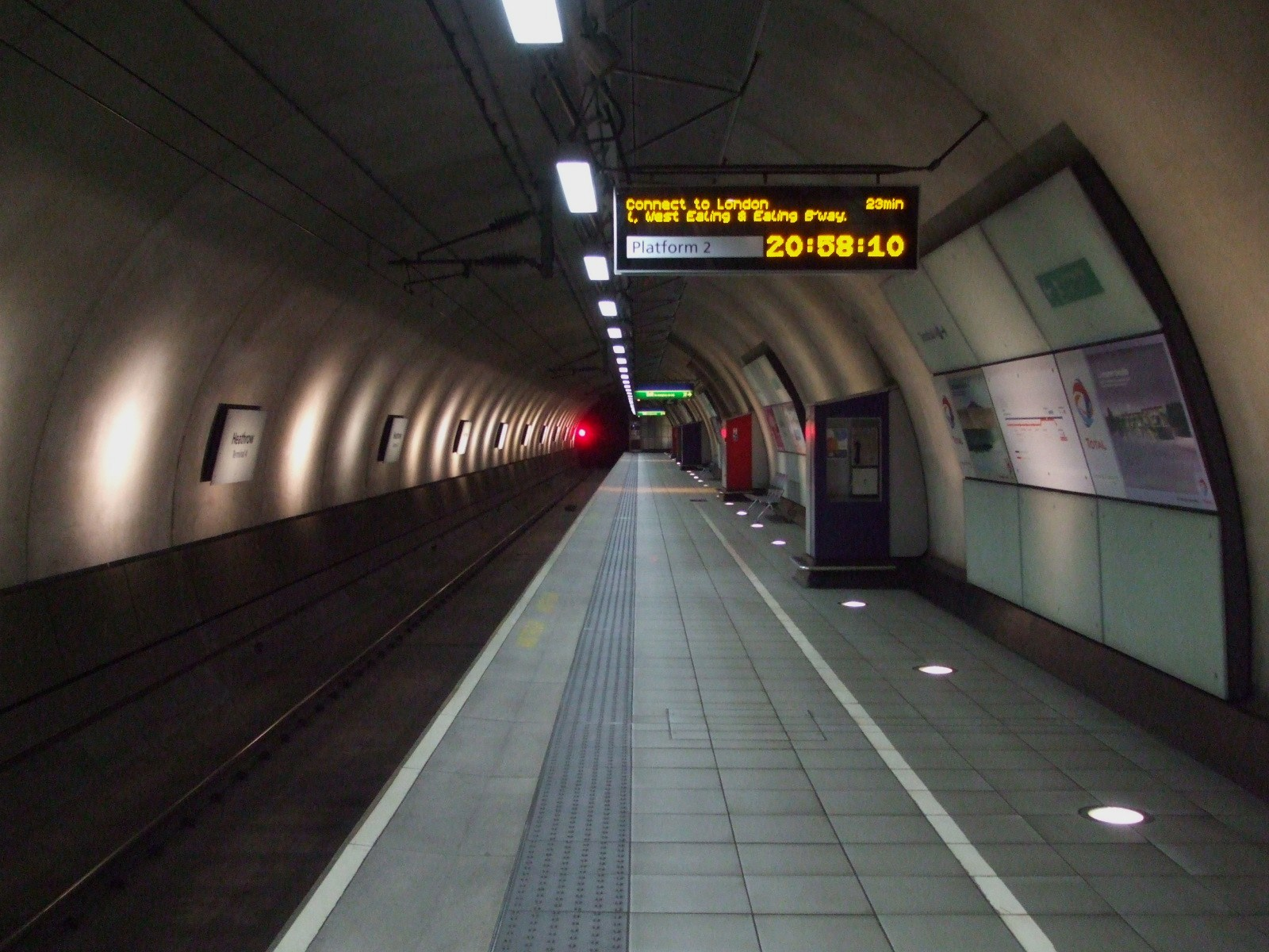 Heathrow Terminal 4 mainline station platform 2 looking towards London. Normally used by Heathrow Connect through trains to Paddington, with shuttle trains to Heathrow Central using platform 1.